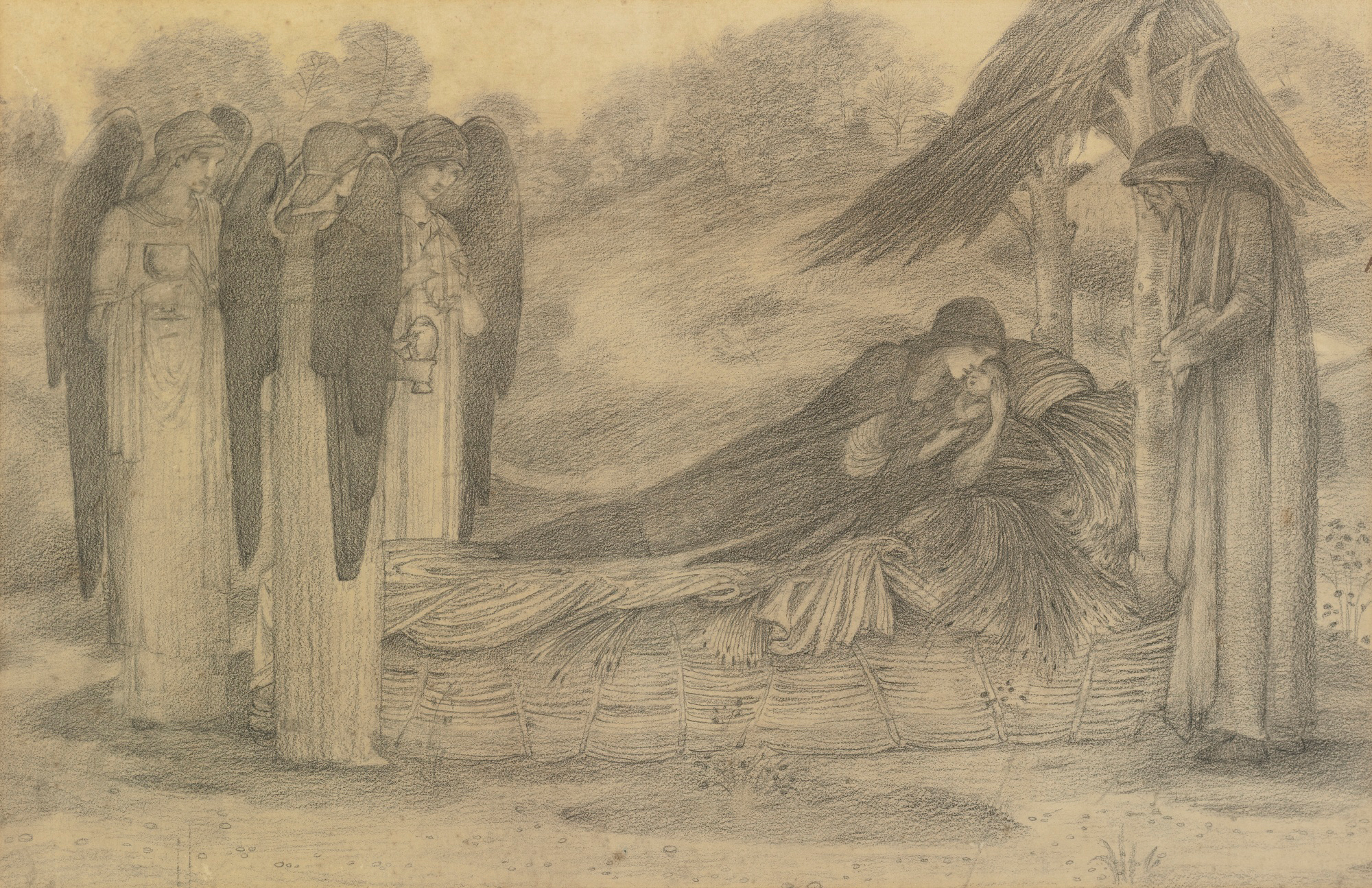 Study for The Nativity pencil on paper laid down on board 40 by 61.9 cm